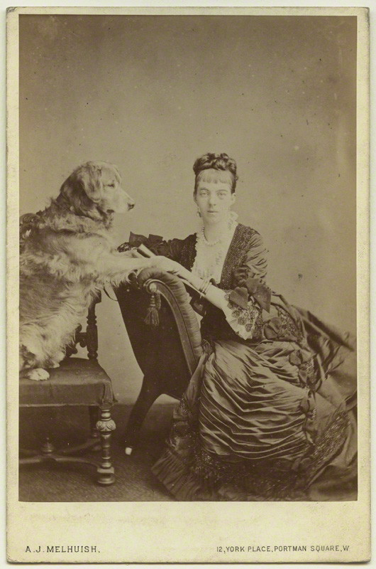 by Arthur James ('A.J.') Melhuish, albumen cabinet card, 1876